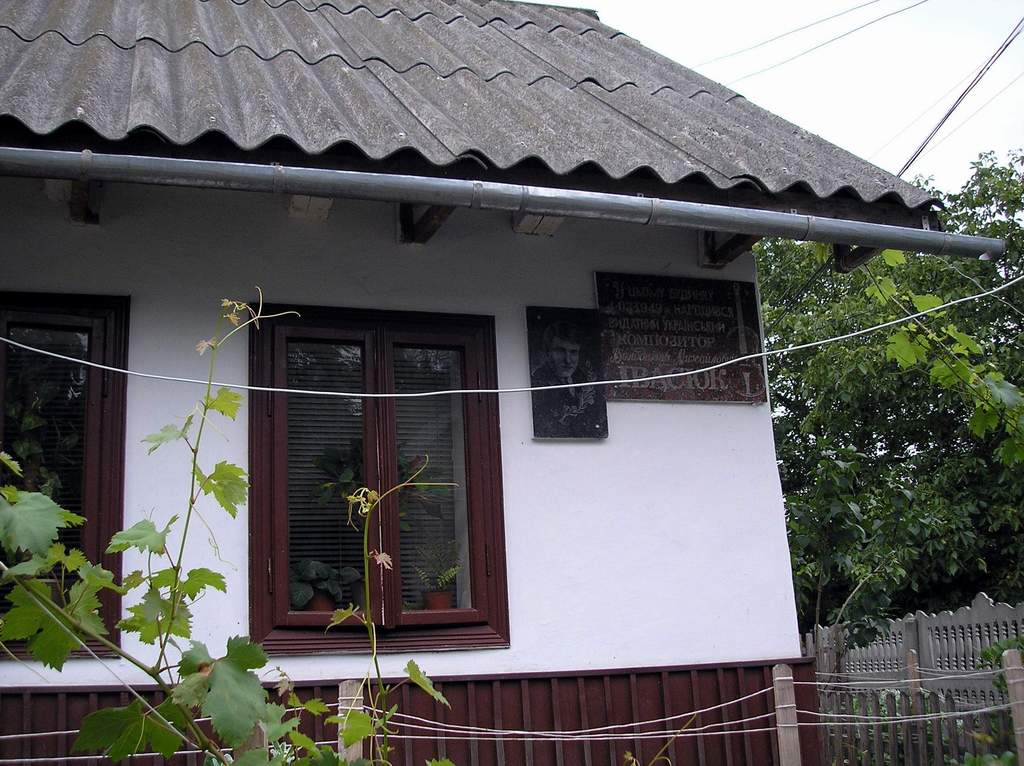 The House, in which was born the Ukrainian composers Volodymyr Ivasyuk and Ani Lorak (1949-1979). Kitsman, Chernivtsi Oblast